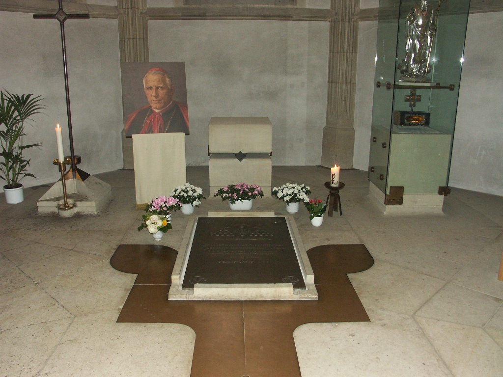 Tomb of Clemens August Graf v. Galen at Muenster Cathedral